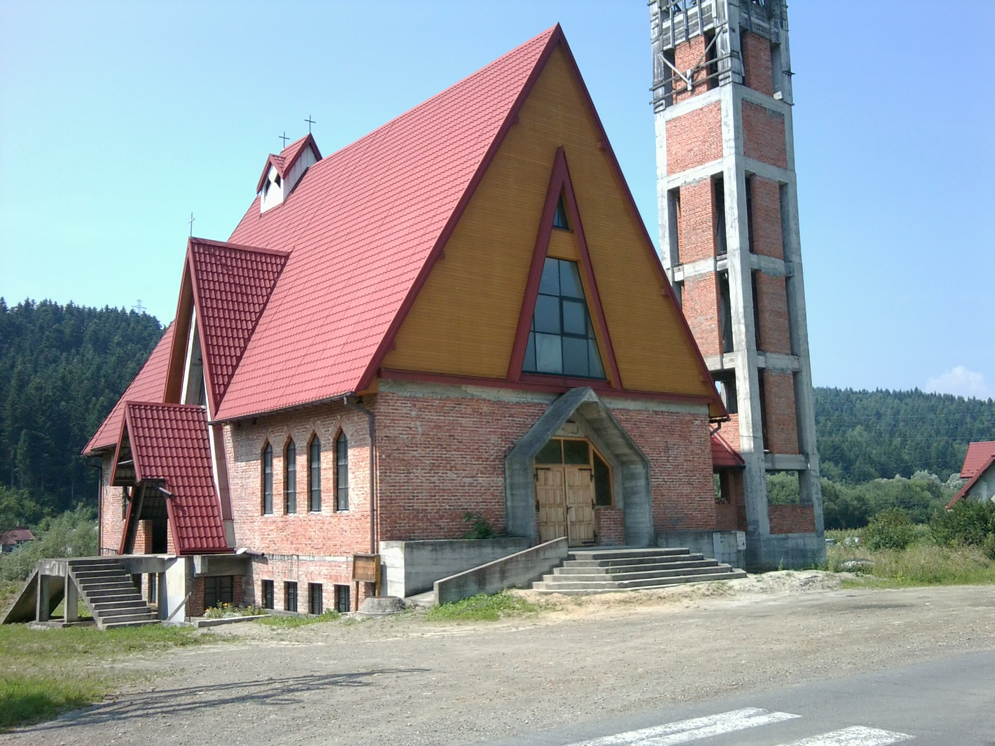 Church in Naszacowice